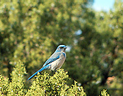 A Woodhouse's Scrub Jay Aphelocoma woodhouseii in Arches National Park, Utah